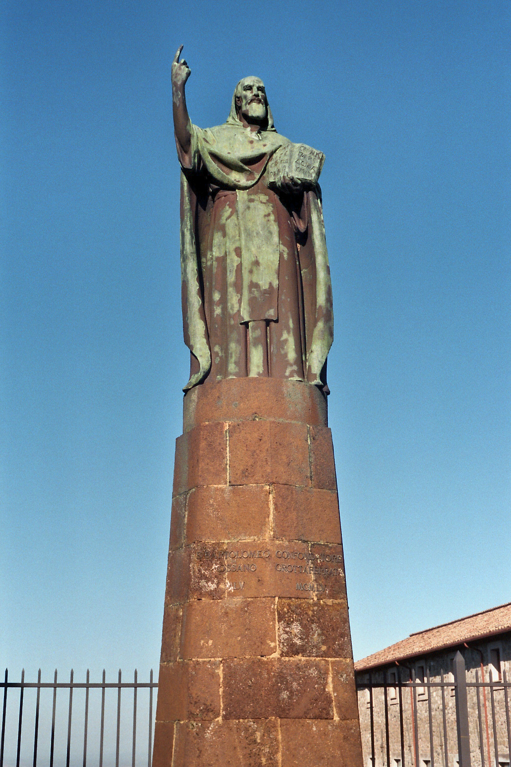 Bartolomeo da Rossano a Grottaferrata, in front of the Abbey of Saint Nil, Lazio, Italy